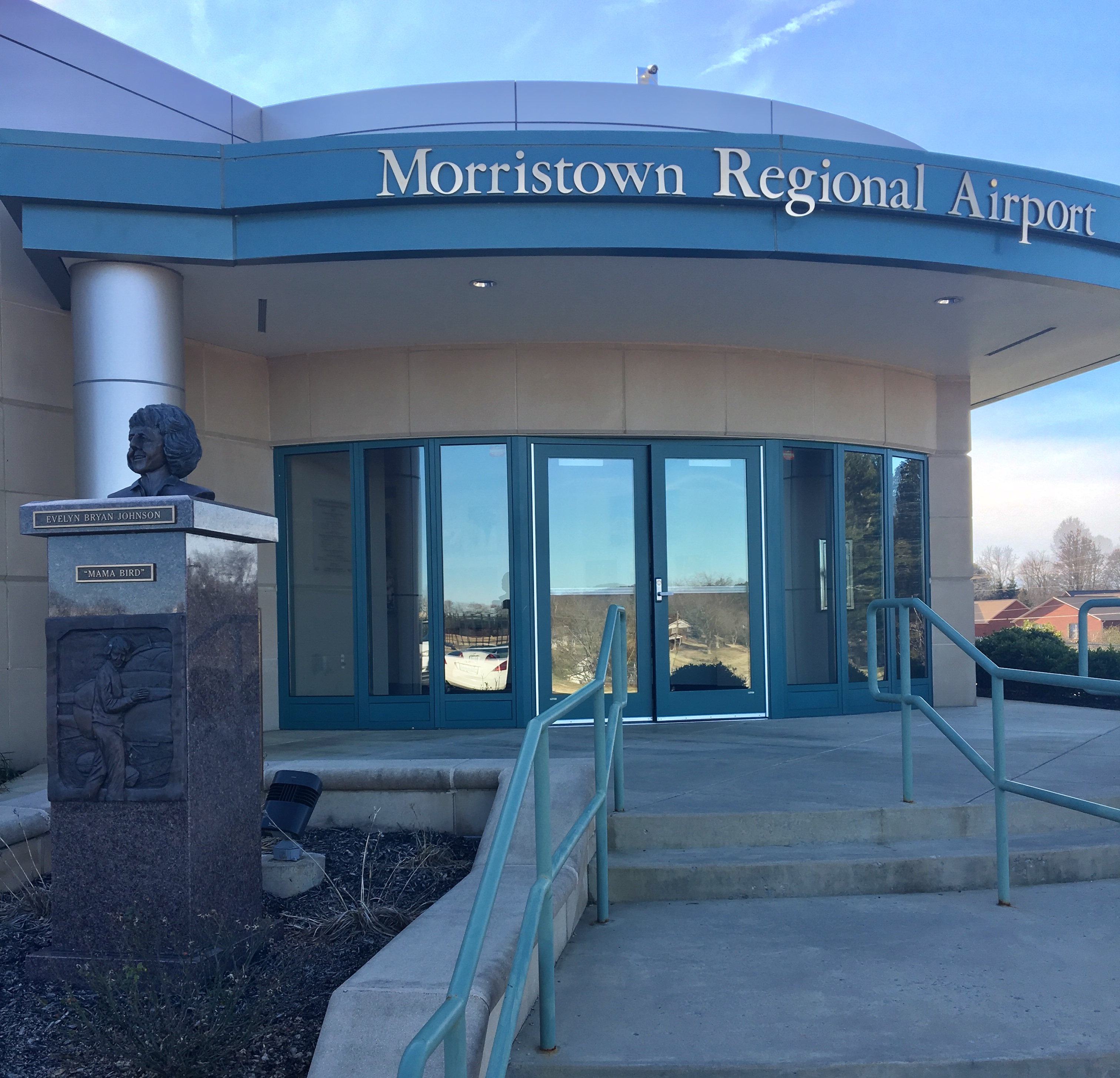 The Evelyn Bryan Johnson Terminal at Morristown Regional Airport in Morristown, Tennessee. In the foreground is the bust of Evelyn Bryan Johnson.